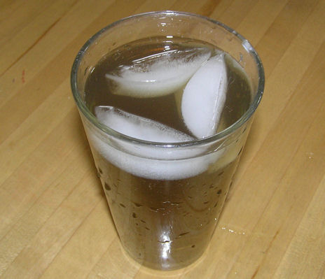 (Benjwong, Took this image myself,)